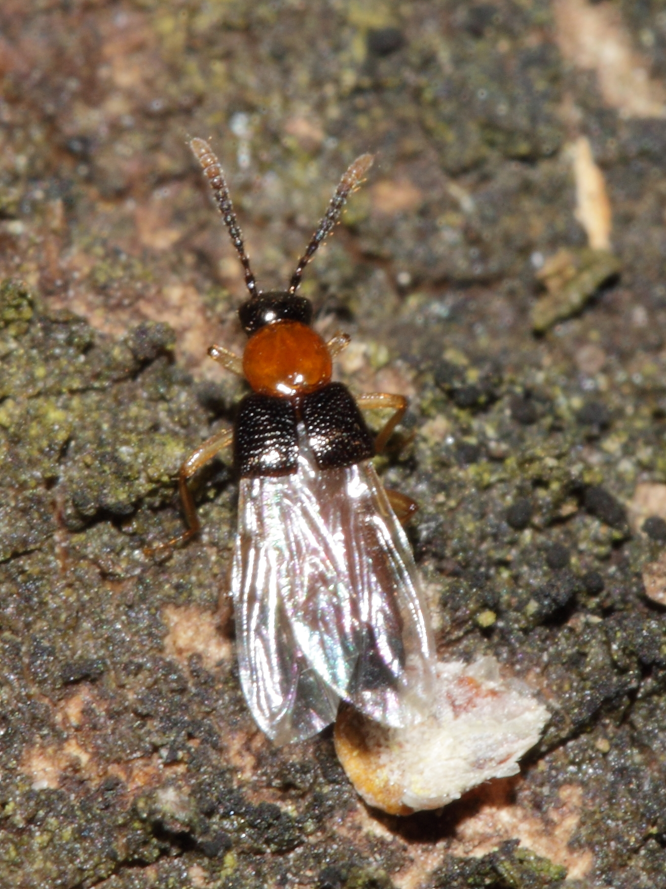 L: 4-5 mm Phylum: Arthropoda Subphylum: Hexapoda Class: Insecta (insects, Insekten) Subclass: Pterygota Order: Coleoptera (beetles, Käfer) Infraorder: Staphyliformia Superfamily: Staphylinoidea Family: Staphylinidae (rove beetlrs, Kurzflügler) Subfamily: Aleocharinae FLEMING, 1821 Tribus: Lomechusini FLEMING, 1821 Subtribus: Myrmedoniina Genus: Zyras STEPHENS, 1835 Zyras collaris PAYKULL, 1789 (OLIVIER, 1795 ?) Germany, Brandenburg, vic. Königs-Wusterhausen: Dubrow, 05.05.2013 IMG_3505